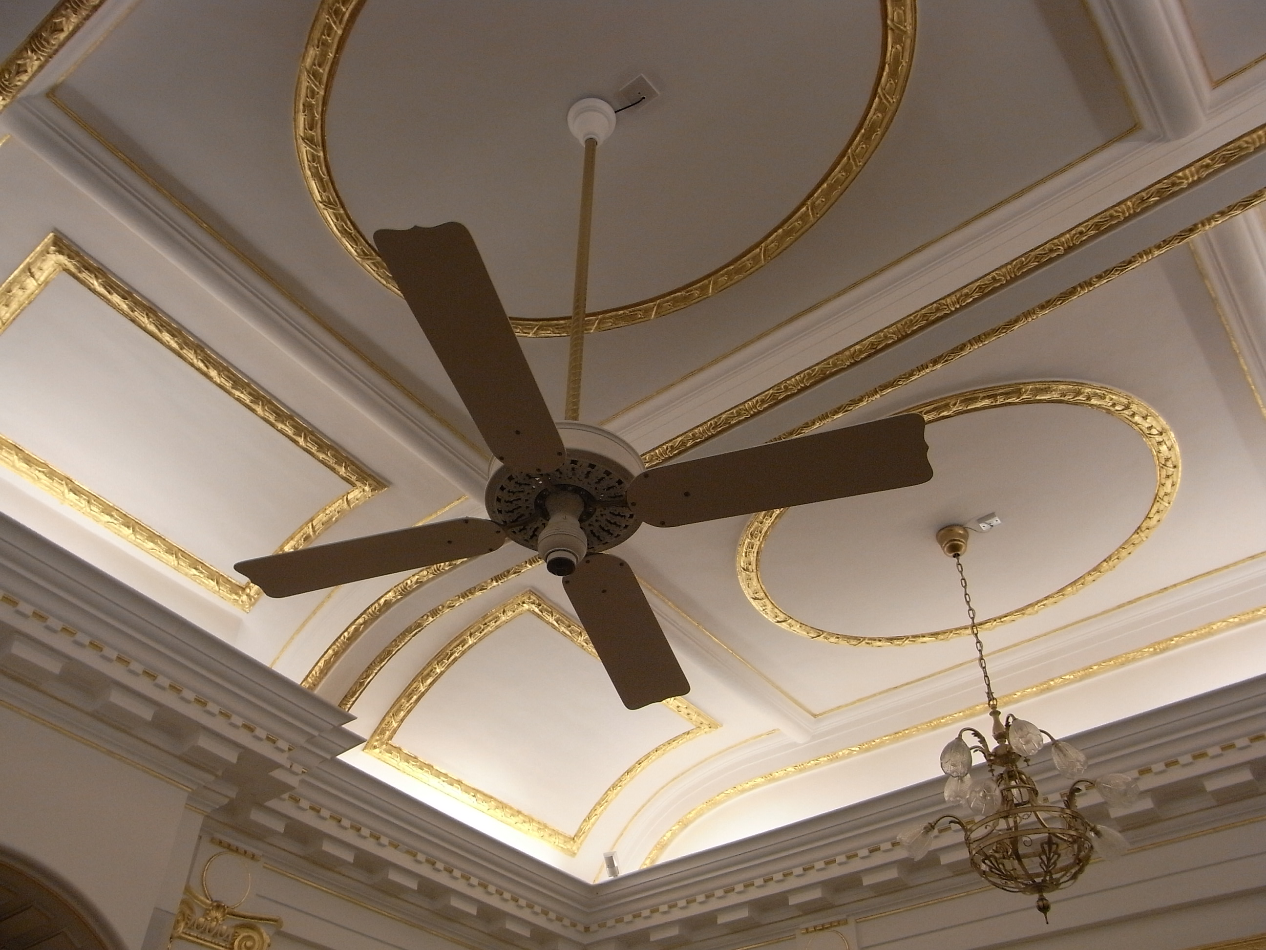 香港孫中山紀念館